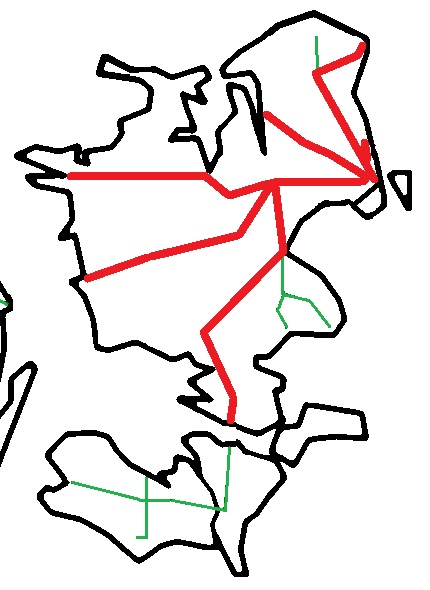 Map of railways on Zealand (Sjælland), Lolland and Falster in Denmark in 1880 with the private railway compagny Det Sjællandske Jernbaneselskab in red, when it was taken over by the danish state.